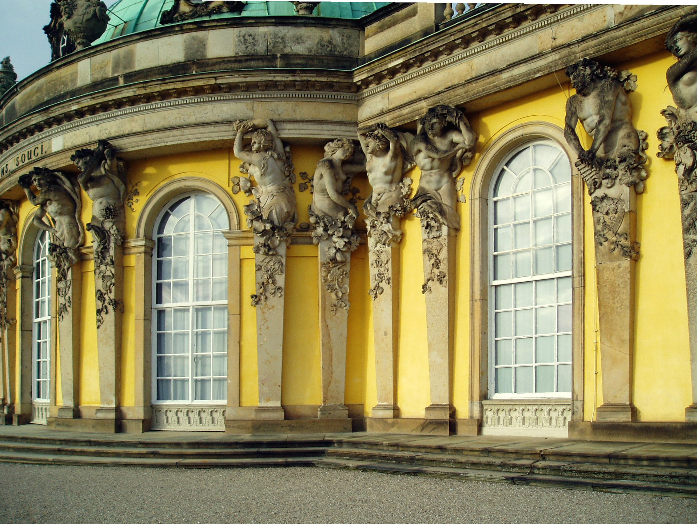 Facade of Sanssouci, Potsdam, Germany}